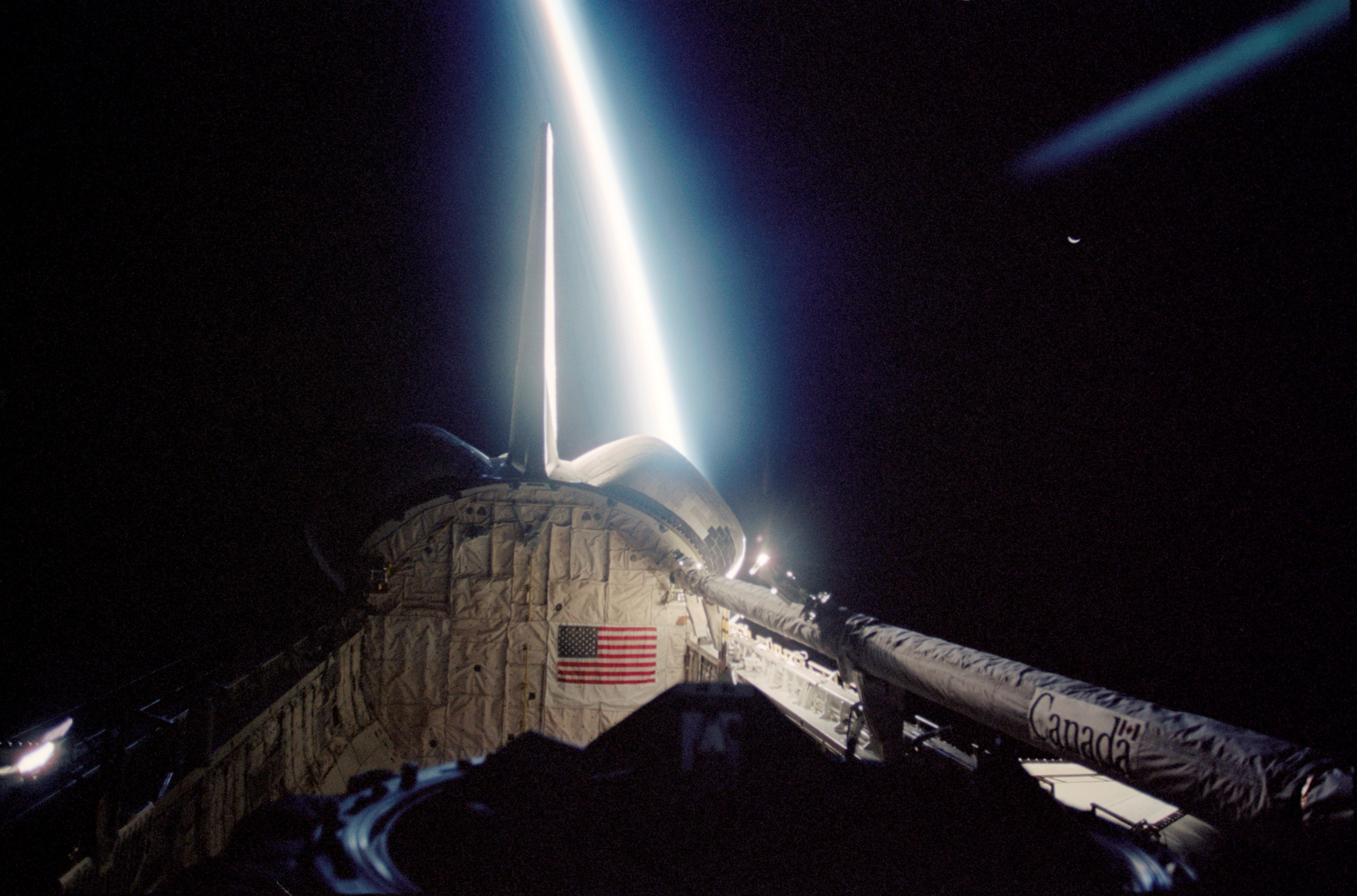 View of the Space Shuttle Endeavour’s payload bay with the remote manipulator system (RMS) robotic arm in lower right frame. The blackness of space, Earth’s moon (upper right frame), and a thin slice of Earth’s horizon which runs vertically across the photograph, form the backdrop for this photograph.